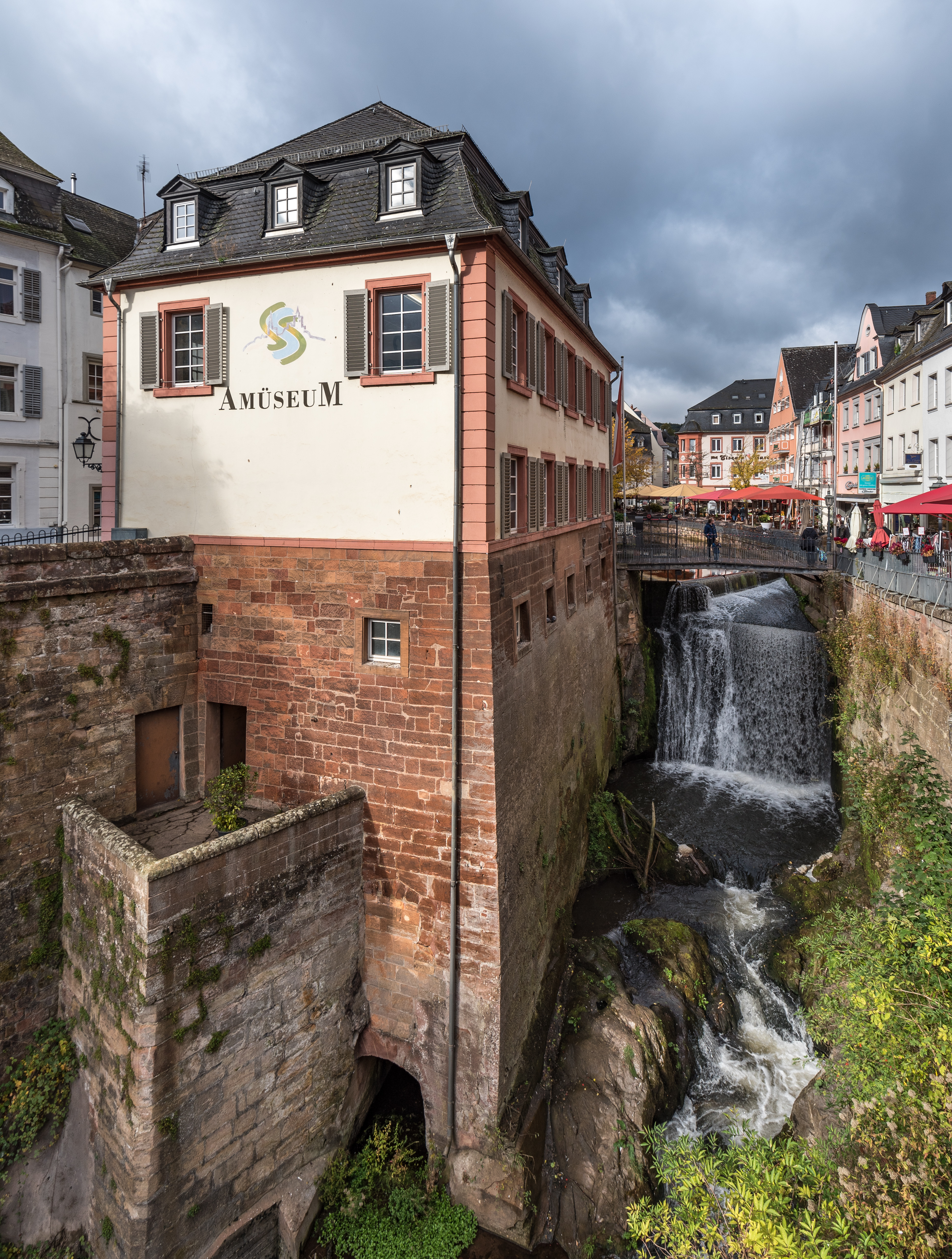 Town view of Saarburg at water fall of Leukbach with mueseum 'Amüseum'